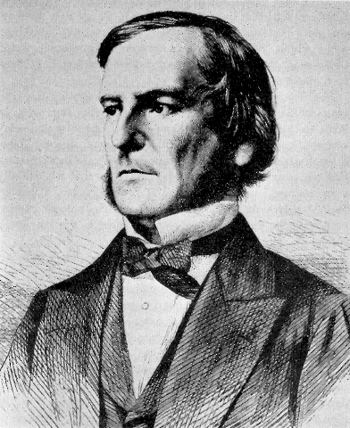 George Boole, mathematician, 1815-1864